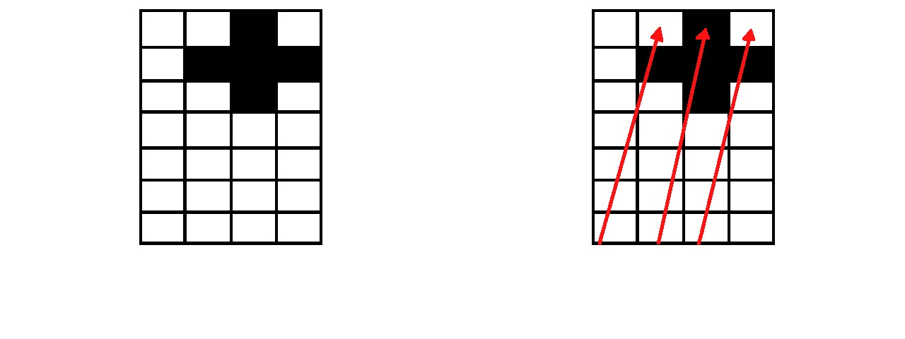 Cartesian